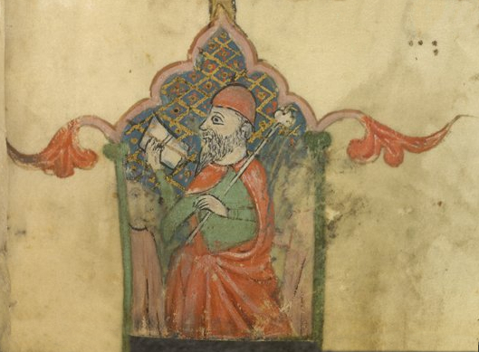 Rabban Gamliel seated in a niche flanked by two of his disciples. From the Haggadah for Passover (the 'Sister Haggadah').